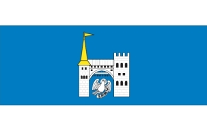 Flag of Kuressaare (since 2010)